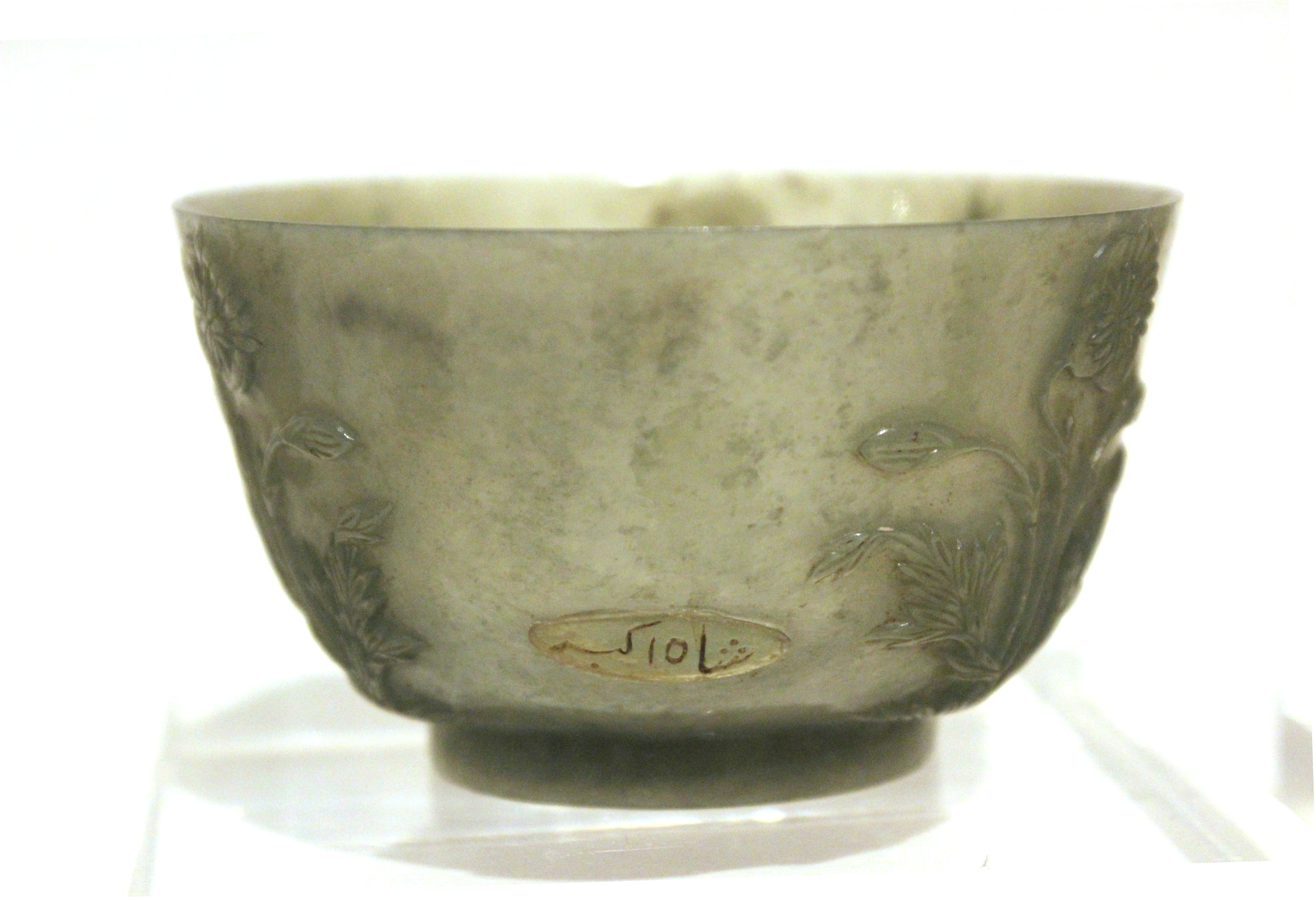 Jade bowl inscribed with the name of Akbar II. Northern India, Mughal. Late 18th century. Jade, carved. Dia. 9.3; Ht. 5.5 cm. National Museum, New Delhi. Acc. no.: 61.506